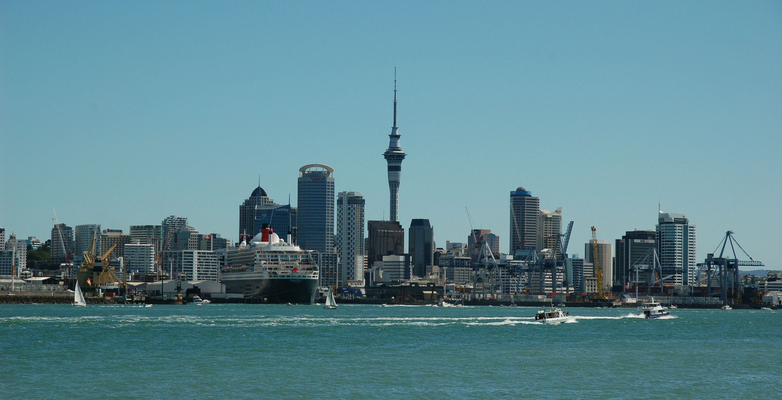 The skyline of Auckland and the Queen Mary 2 seen from Devonport